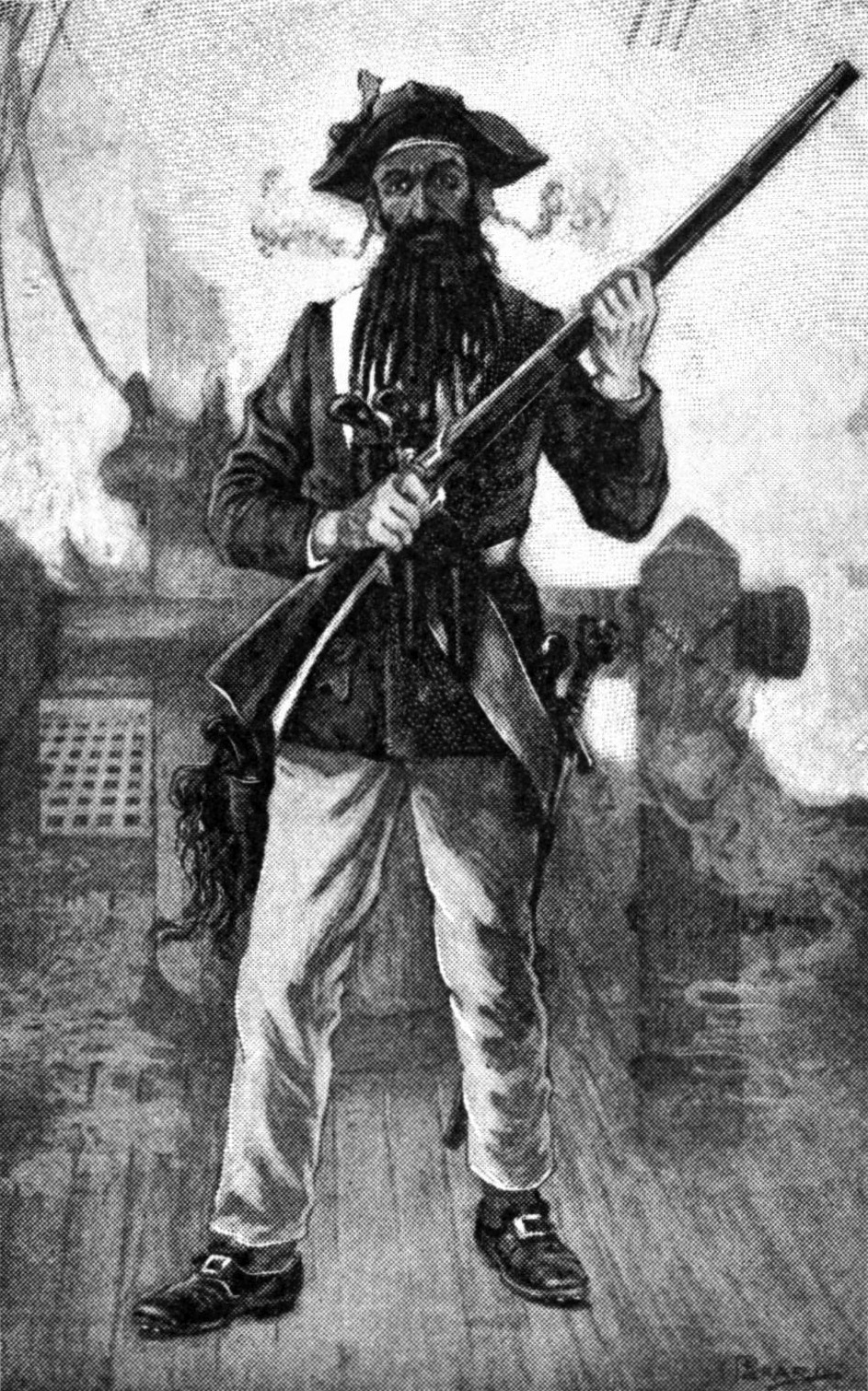 Blackbeard: pictured with a rifle while standing on board a ship